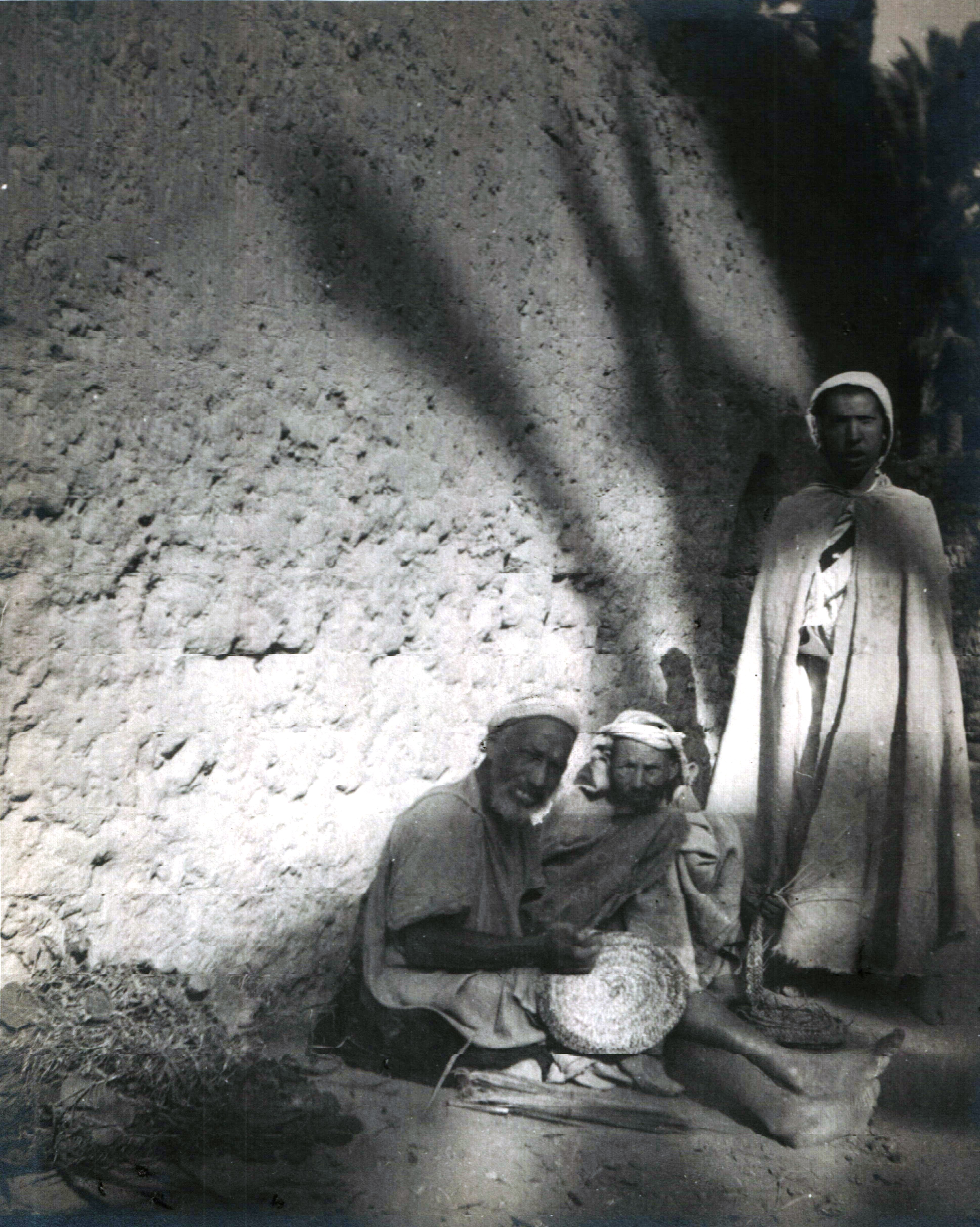 Views and photos of the Sahara desert and other regions in Africa. Basket weavers in Zenaga, Morocco.